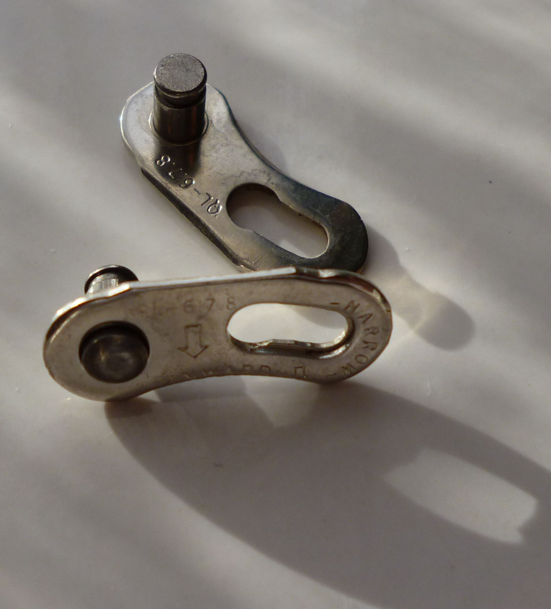 A photo of a CLARKS master link for bicycle chains. It has a slightly curved shape as opposed to the straighter PowerLink shape made by the SRAM manufacturer.